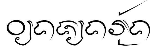 Lanna script – Wiang Chiang Rung is a district (amphoe) of Chiang Rai Province, northern Thailand.